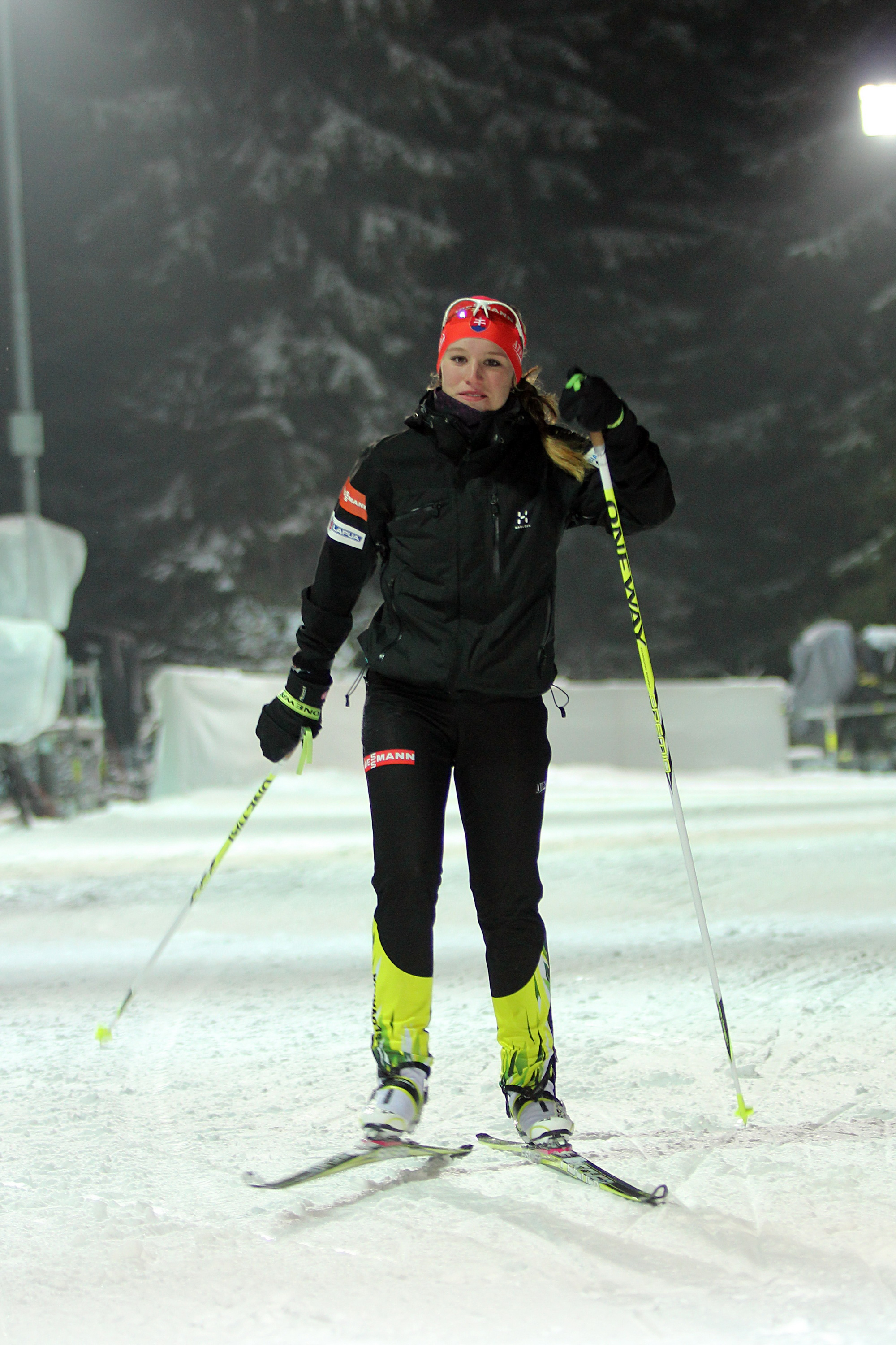 Paulina Fialková at world championchip 2013 Move Mesto na Morave